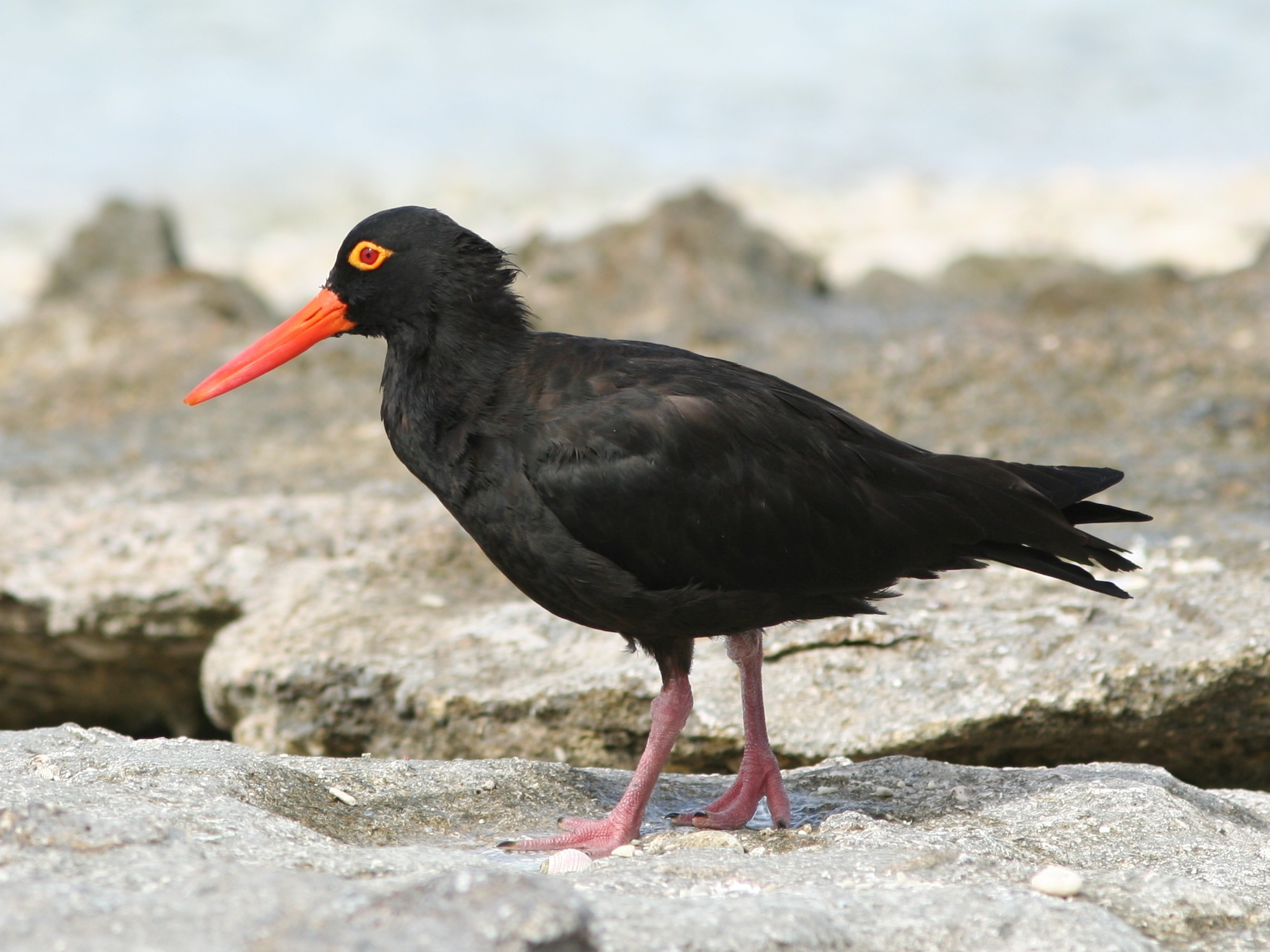 Sooty Oystercatcher Haematopus fuliginosus, Lady Elliot Island, Queensland, Australia